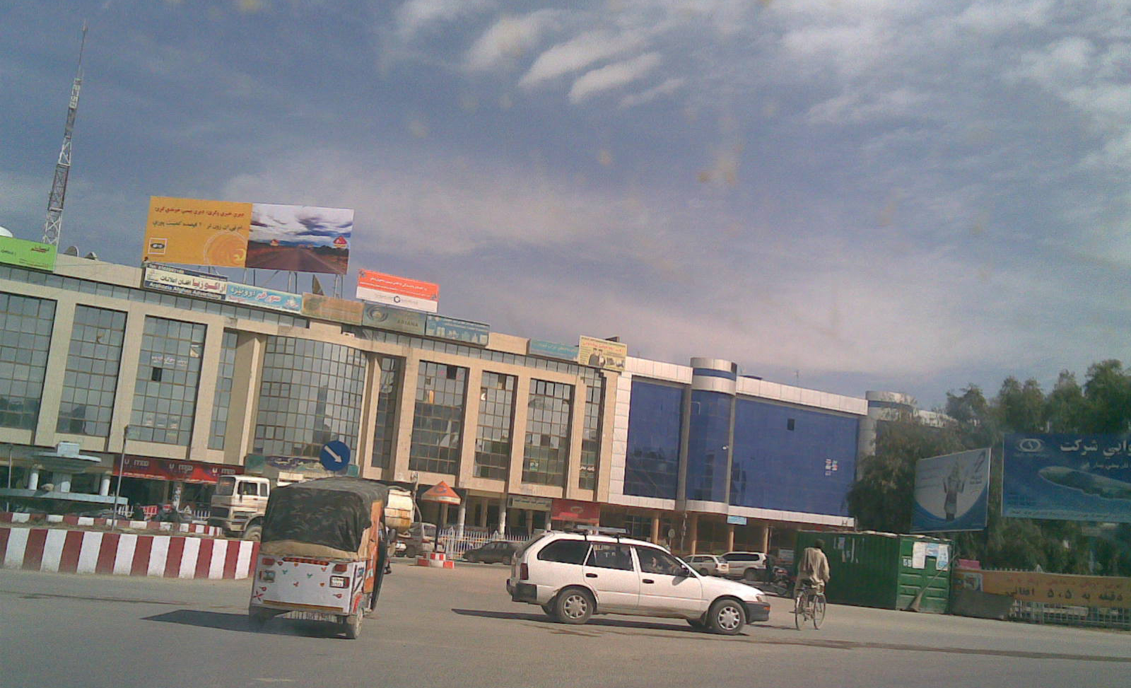 Downtown area of Kandahar City in Afghanistan.